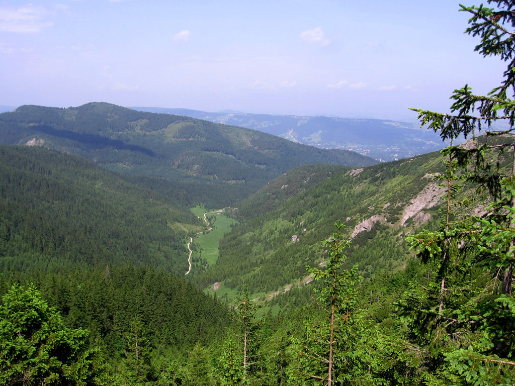 Jaworzynka Valley in Tatra Mountains, Poland